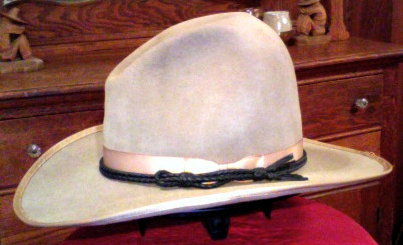 1920s Stetson carlsbad cowboy hat side view